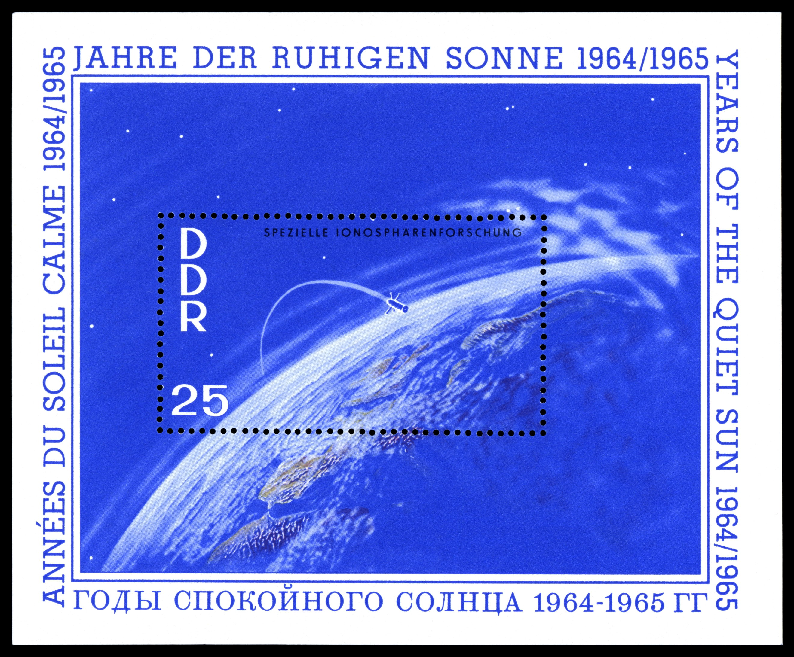 Ausgabepreis: 25 Pfennig First Day of Issue / Erstausgabetag: 29. Dezember 1964 Auflage: 1.200.000 Entwurf: Urbschat Druckverfahren: Offsetdruck Michel-Katalog-Nr: Ländercode-MiNr: Block 20 Licensing This file is most likely NOT in the public domain. It has been marked for review, and will be deleted in due course if the review does not find it to be in the public domain. This file was previously considered to be in the public domain as a German stamp; it is possible that it is in the public domain for other reasons, in which case a new rationale will be applied as part of the review process. See below for the previous rationale. Previous public domain rationale, no longer applicable This stamp is in the public domain in Germany because it was released by the postal administration of the German Democratic Republic or the Soviet occupation zone (Deutschen Post der DDR) whose legal successor is the Federal Republic of Germany. Thus it is an official work according to German copyright law (§ 5 Abs. 1 UrhG).